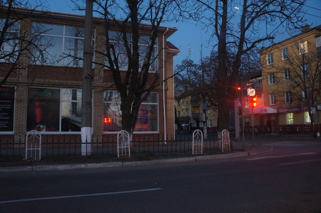 Downtown Kremenchuk